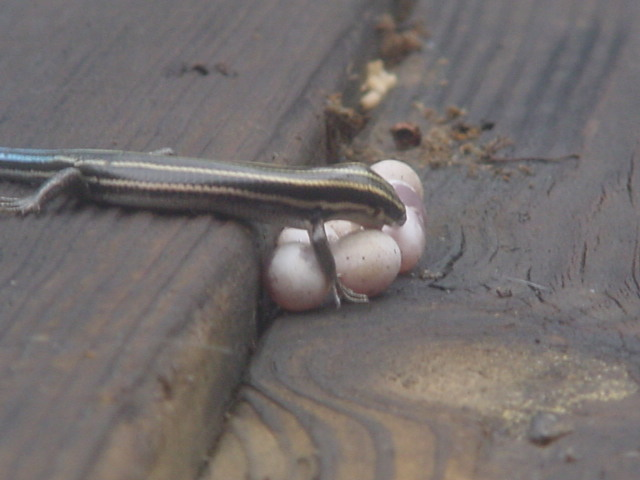 Mother skink moving her eggs closer together.